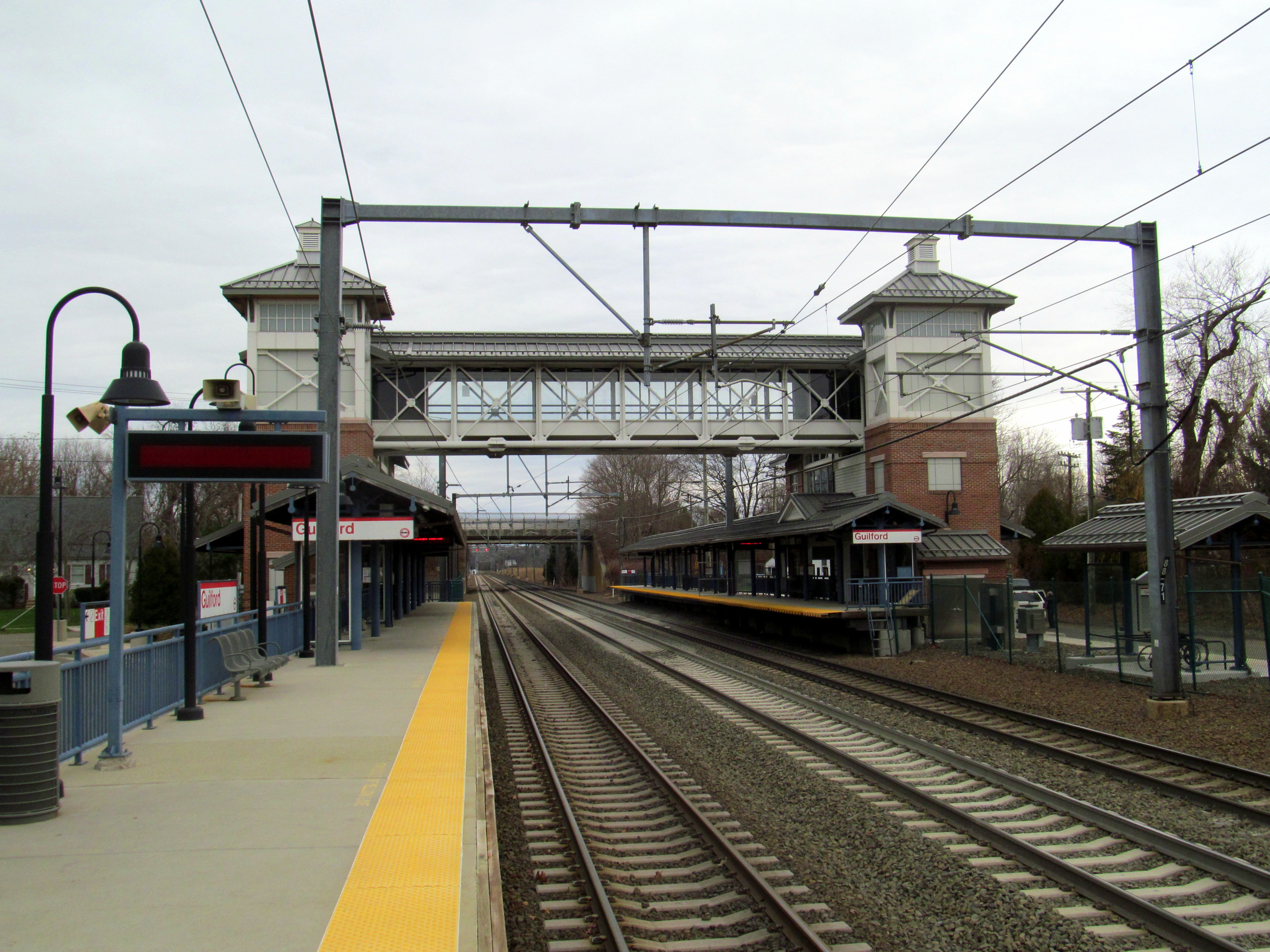 Guilford station in December 2015